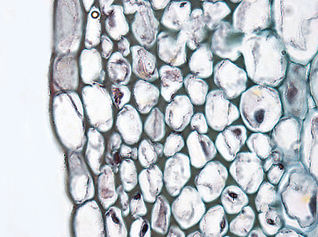 Carl Szczerski, Prepared slide, No internet links, Taken by myself, for a laboratory tuitorial